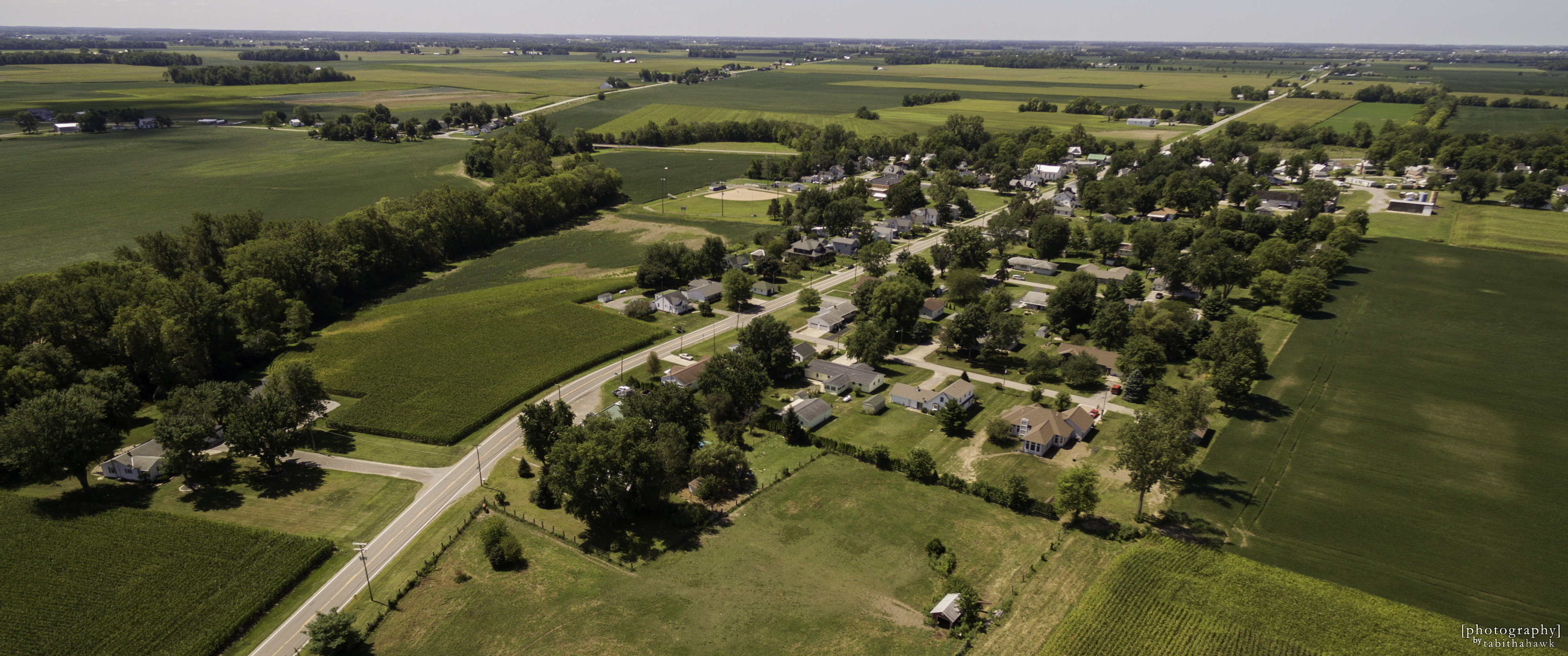 From the east side of town looking southwest from a DJI Phantom Professional 3 Drone